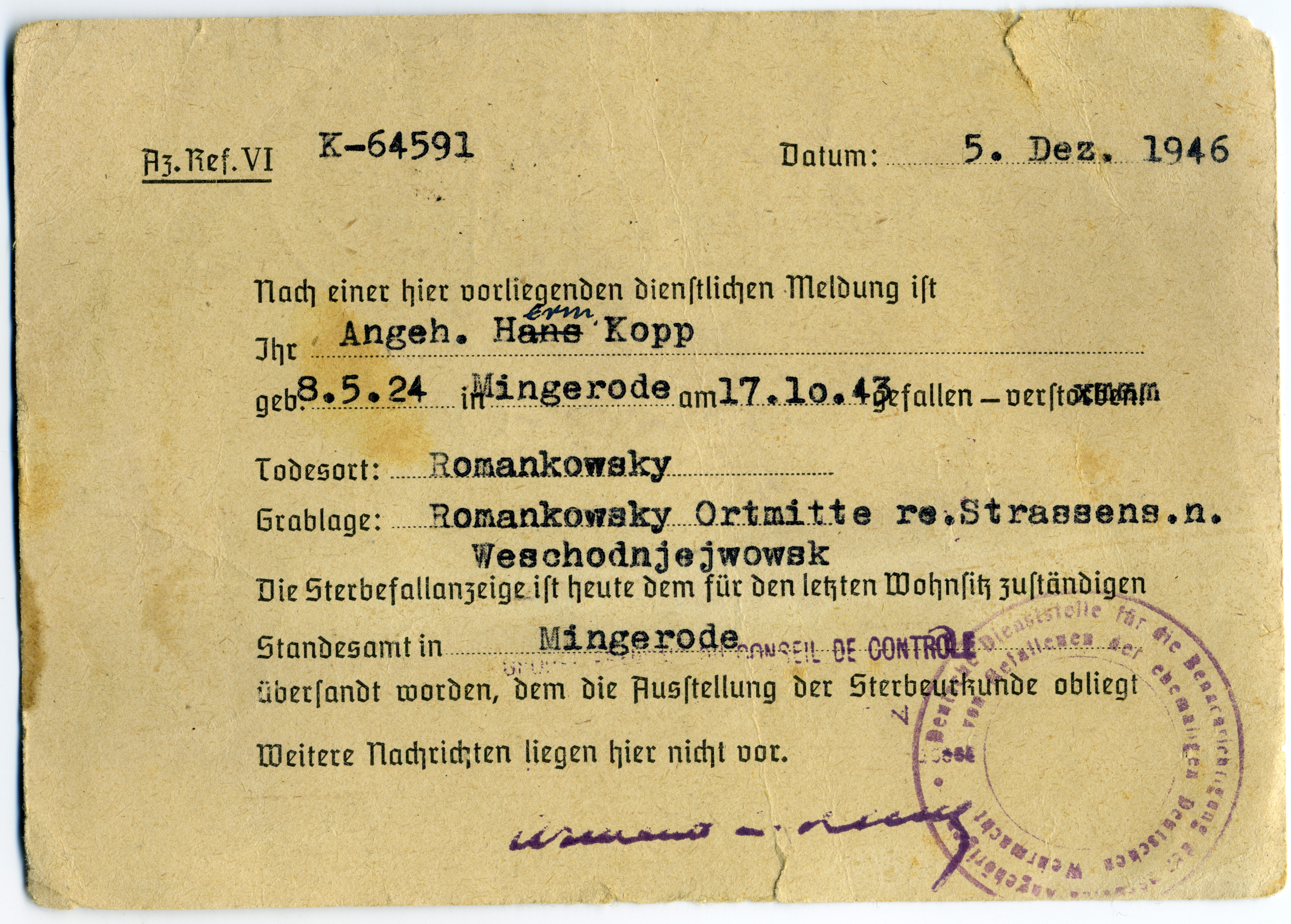 Death notice of Hermann Kopp, who died on the Eastern front in 1943.